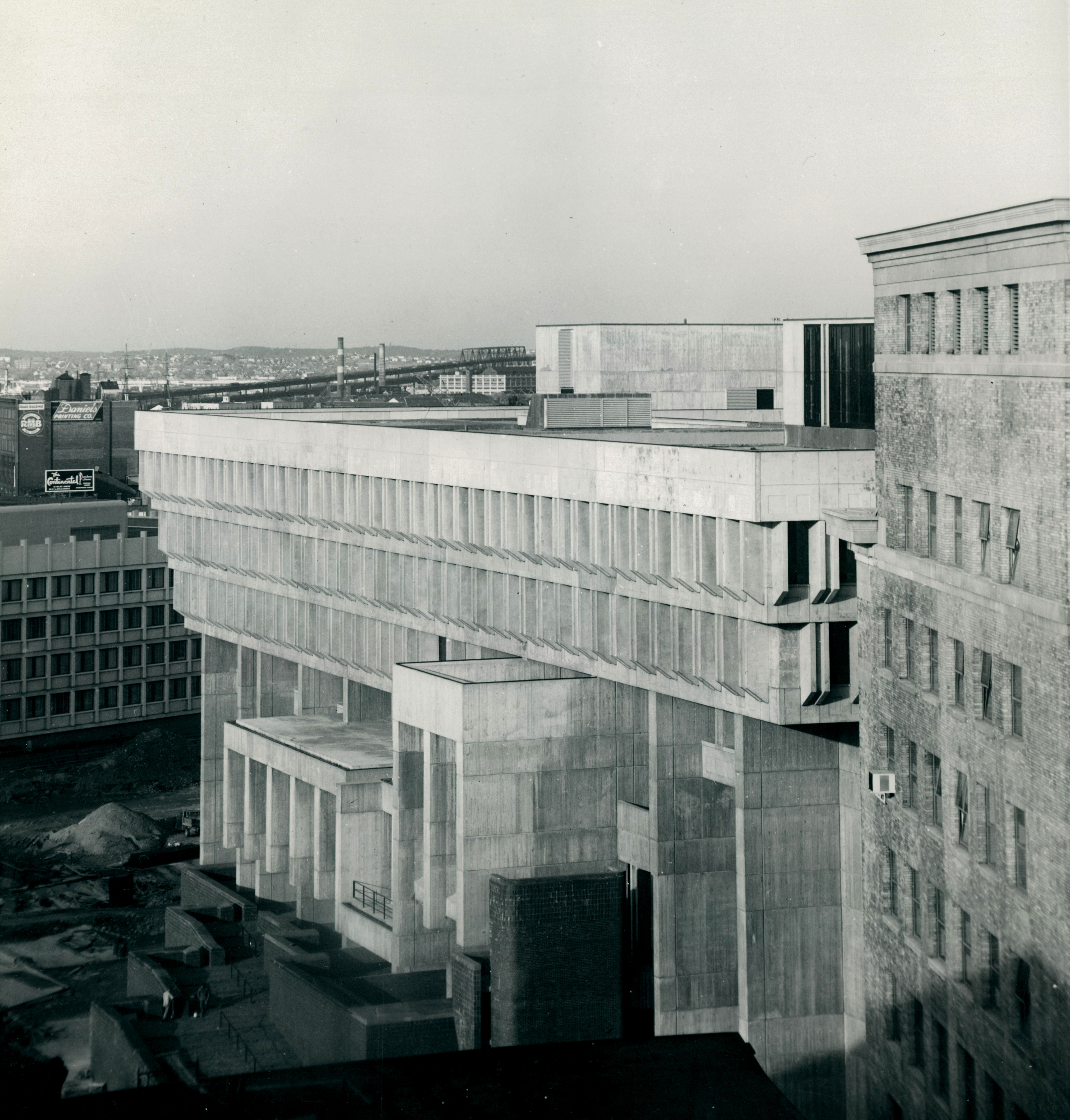 Title: Boston City Hall Creator: Boston Redevelopment Authority Date: circa 1968 Source: Government Center Urban Renewal project, Boston Redevelopment Authority photographs, Collection # 4010.001 File name: R35_0059 Rights: Copyright City of Boston Citation: Boston Redevelopment Authority photographs, Collection # 4010.001, City of Boston Archives, Boston